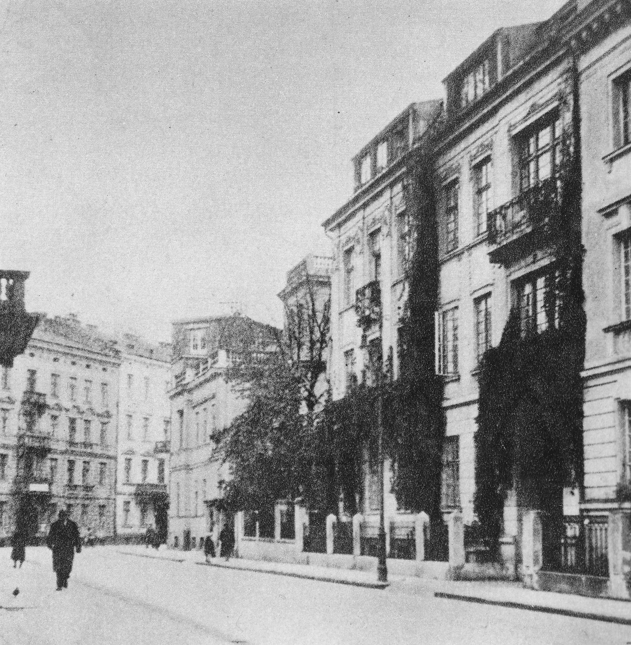 Róż Avenue near Koszykowa Street in Warsaw